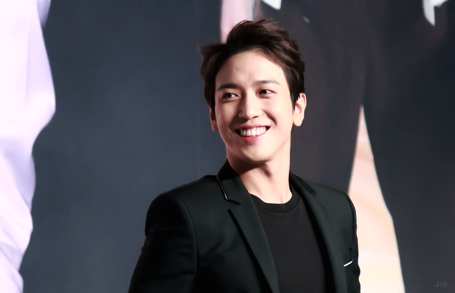 Jung Yong-hwa promoting his first film Cook Up a Storm at a meet and greet session at Studio City in Macau, Hong Kong on January 15, 2017.